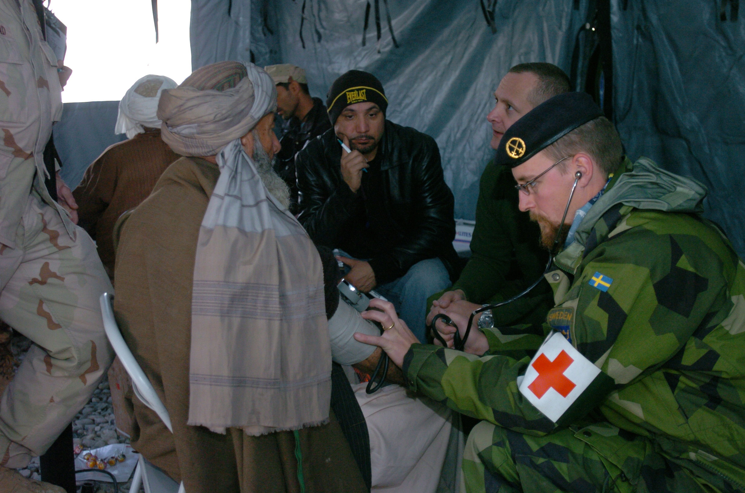 Swedish army 2nd Lt. Pär Bursell checks the blood pressure of an Afghan elder complaining of chest pains during a medical civil action project in the Mazar-e Sharif region of Afghanistan Nov. 27, 2006. The Cooperative Medical Assistance team of Bagram, Afghan National Army Medic Platoon, the Romanian Medical Detachment, Norwegian and Swedish army medics are providing the medical care. (U.S. Army photo by Cpl. Bertha A. Flores)